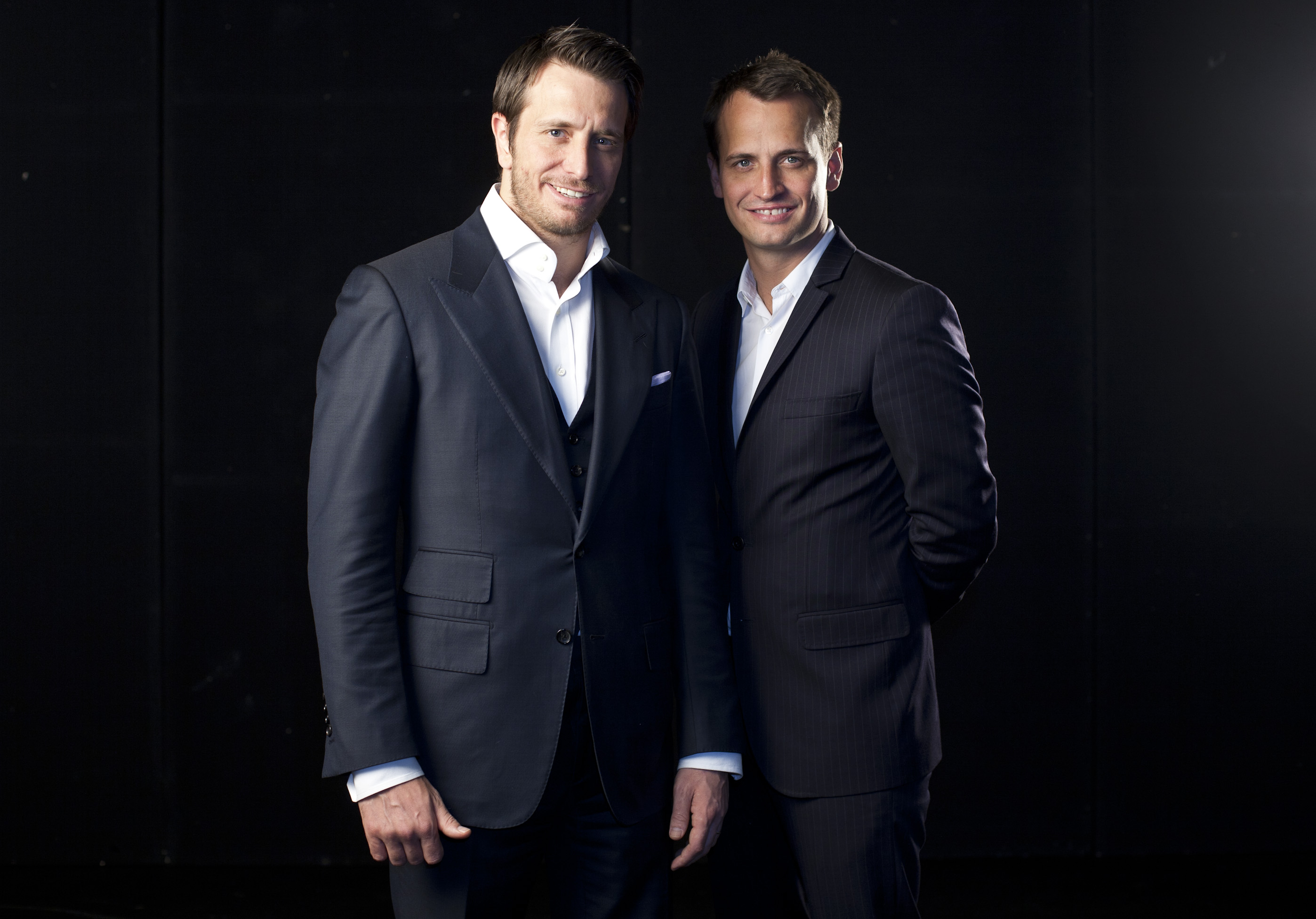 Kalle and Nisse Sauerland